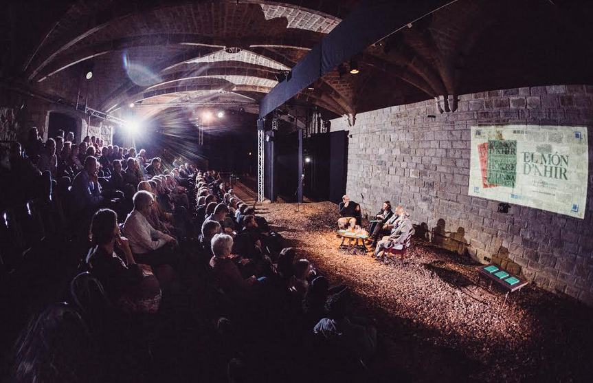 El Món d'ahir number 2 presentation